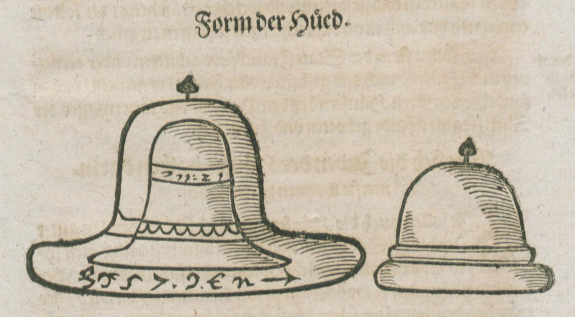 Juden hut from the Law concerning Jew (Stättigkeit) from Franckfort, 1613. The titel reads "Form der Hüed" Form of the hats. The wearing of a Judenhut was not compulsory anymore at that time (1613)